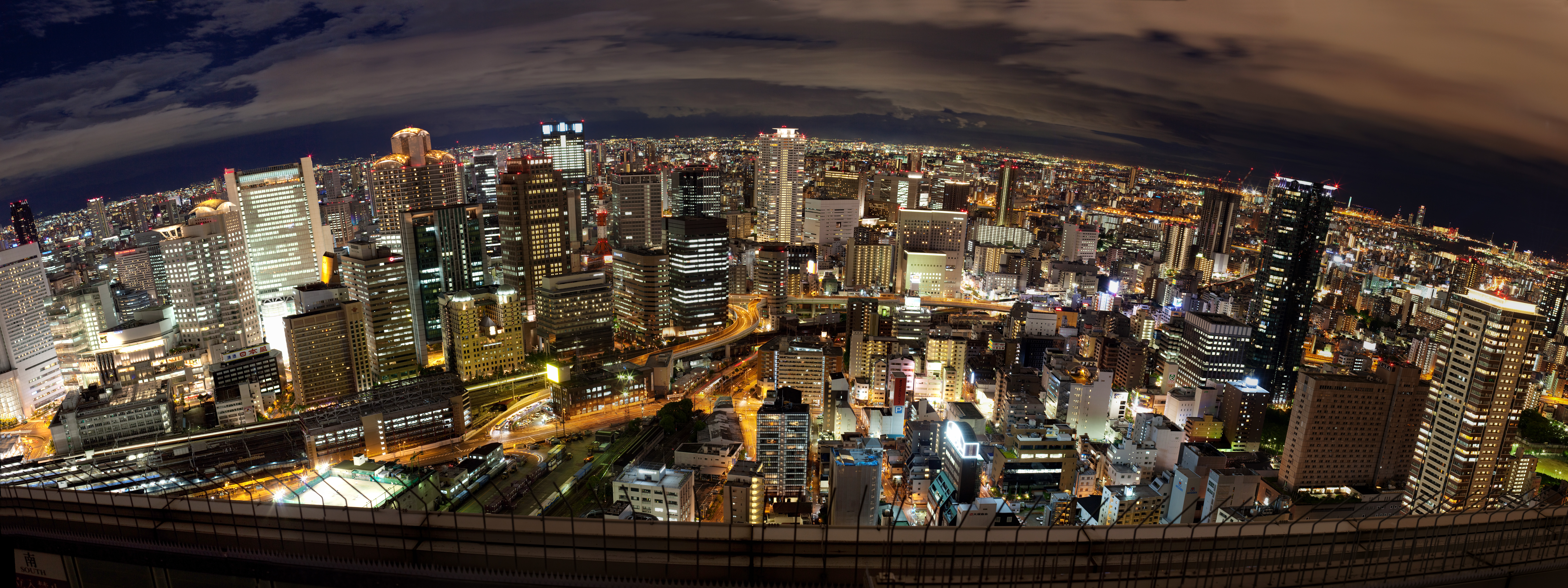 Night panoramic view from Umeda Sky Building